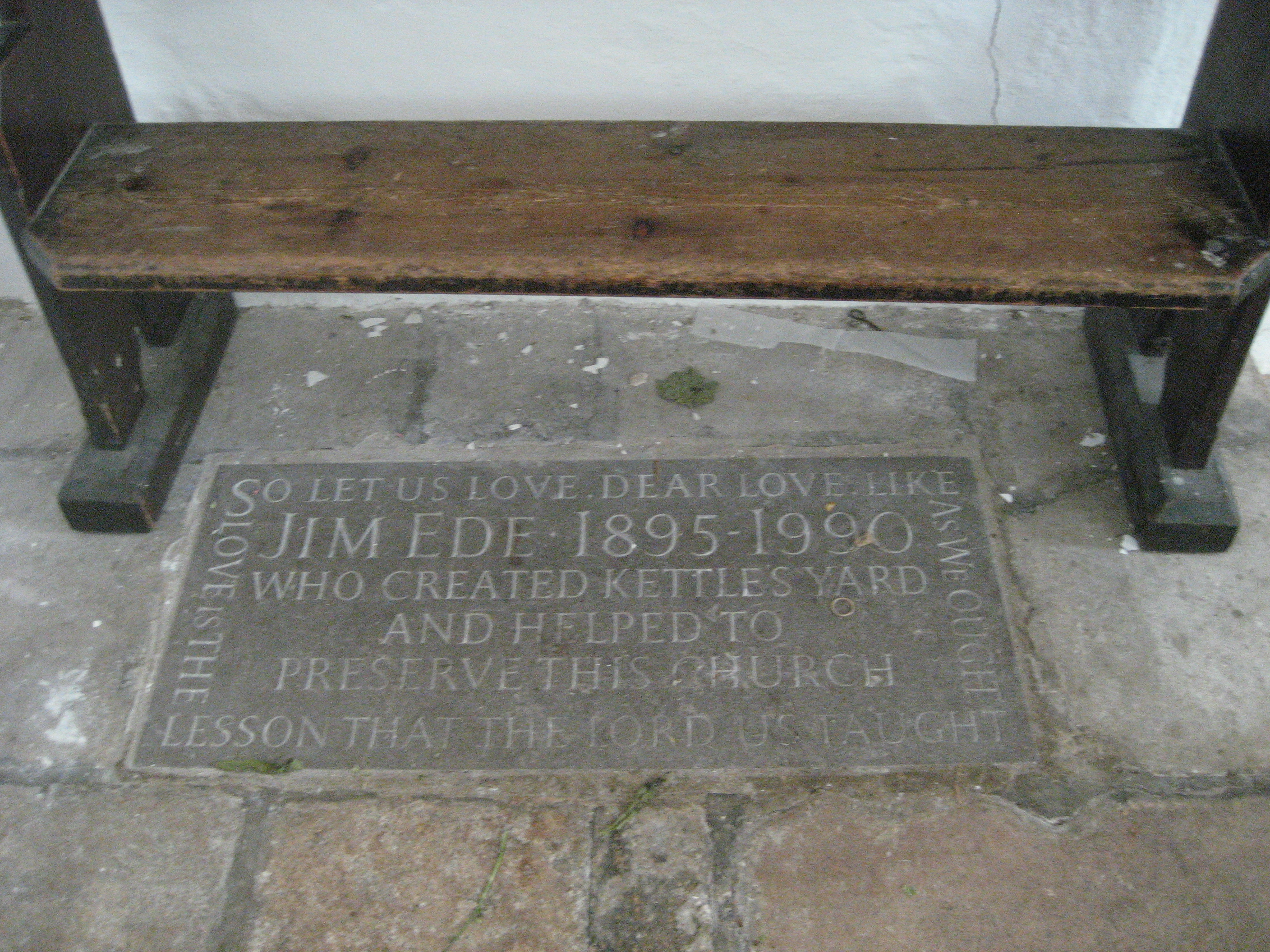 St Peter's Church, Cambridge. Memorial stone to Jim Ede (1895-1990)